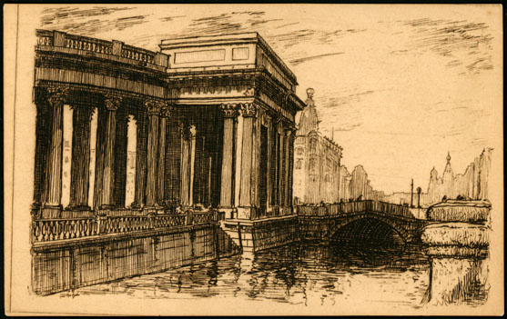 An postcard view of the Kazan Bridge of St. Petersburg, Russia. This is postcard from the Churakov collection, now belongs to The National Library of Russia (more info here - [1]). The image is downloaded from [2].